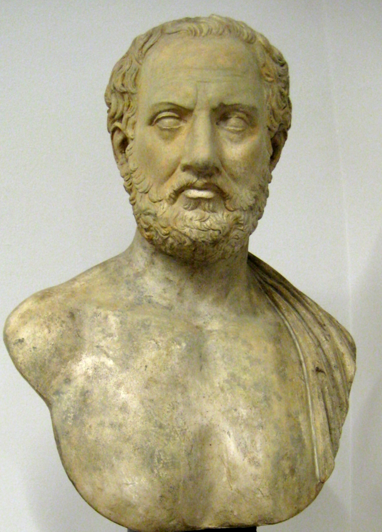 Thucydides. This is the plaster cast bust currently in exposition of Zurab Tsereteli's gallery in Moscow (part of Russian Academy of Arts), formerly from the collection of castings of Pushkin museum made in early 1900-1910s. Original bust is a Roman copy (c. 100 CE) of an early 4th Century BCE Greek original, and is located in Holkham Hall in Norfolk, UK.